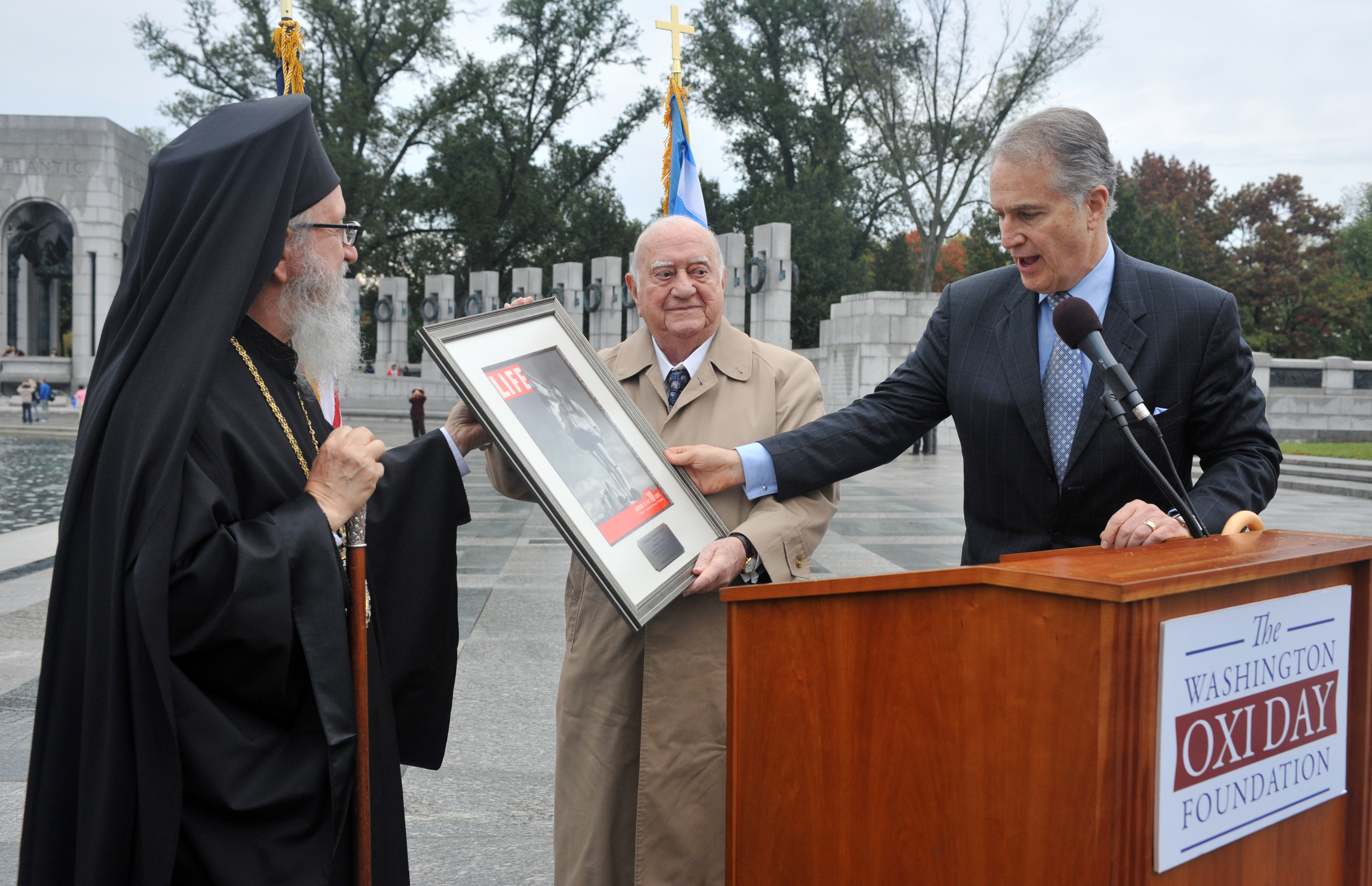 Andrew Athens Receiving the 2011 Oxi Day Award